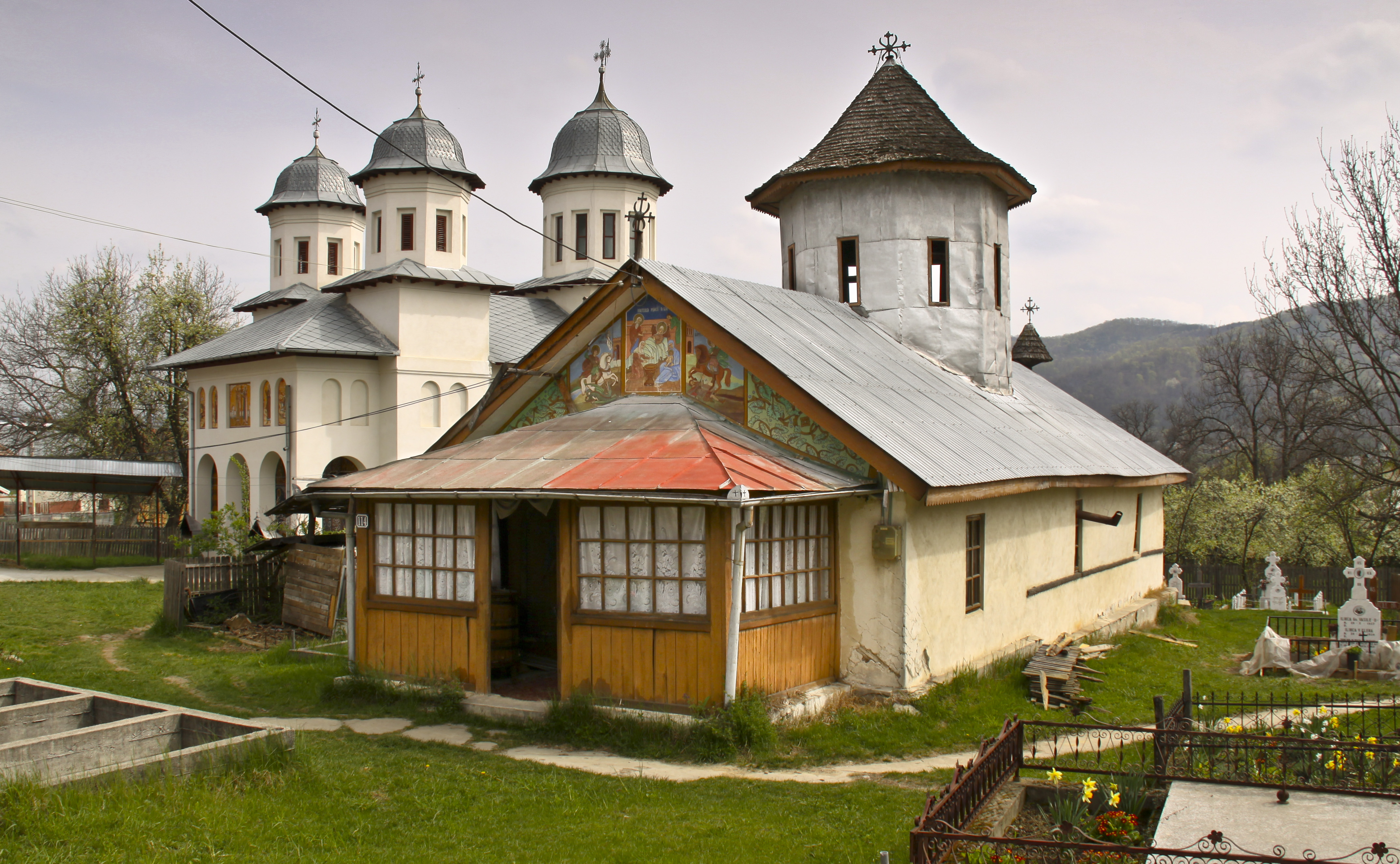 Găneşti, Argeş county, Romania: the wooden church.